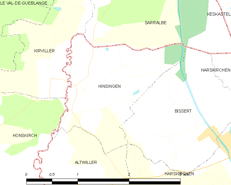 Map of French municipality